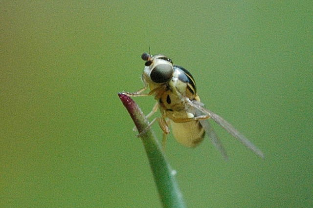 Picture taken in Commanster, Belgian High Ardennes . Species: Thaumatomyia notata